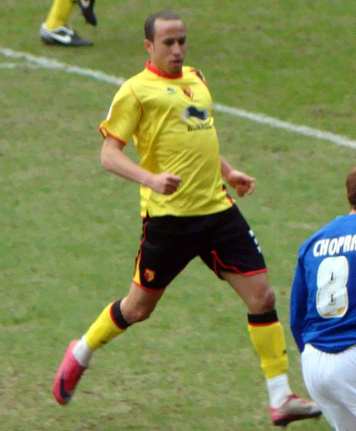 22/01/11 Cardiff V Watford, Championship, Cardiff City Stadium, Cardiff, Wales